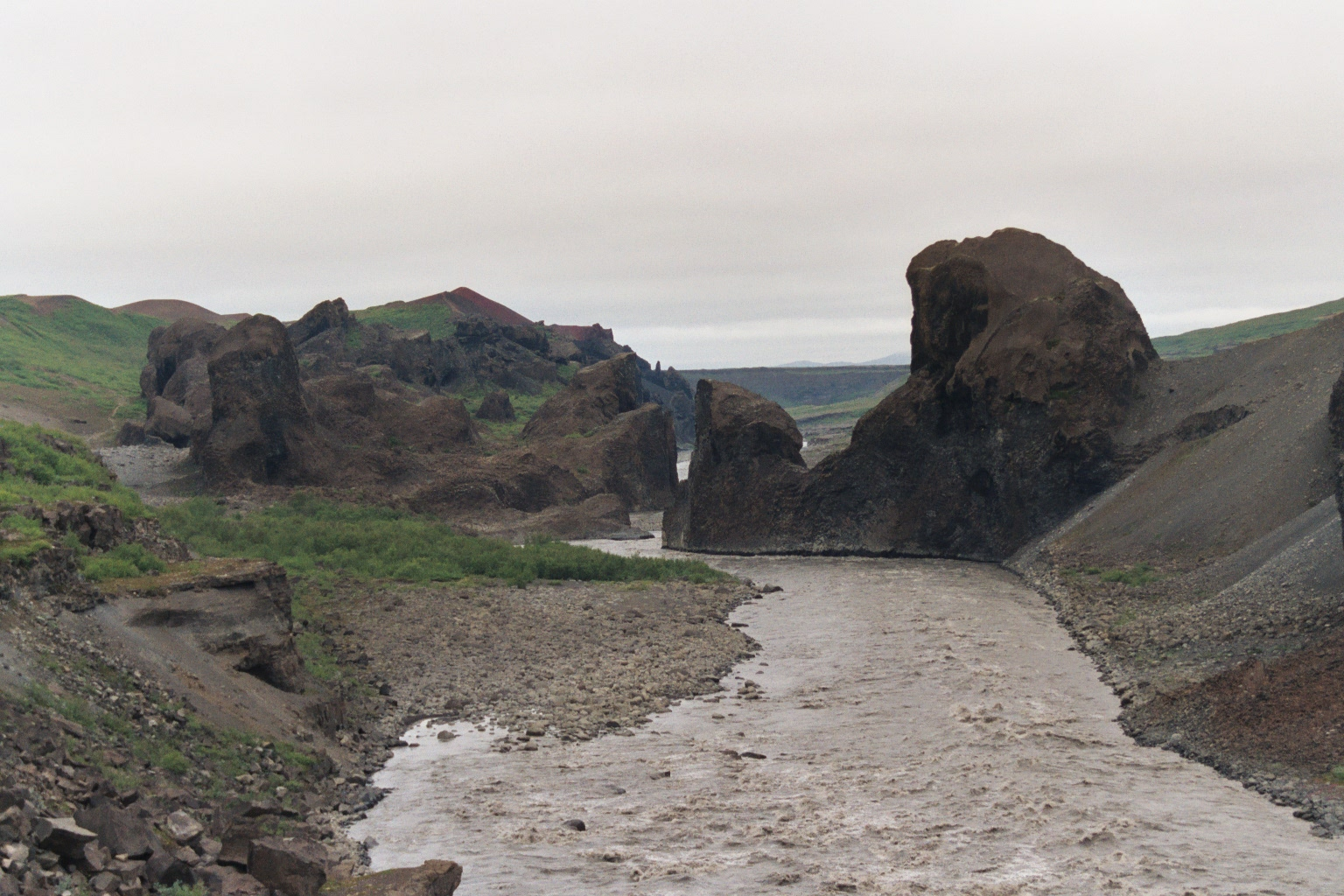 View on the Jökulsá á Fjöllum river, in the Jökulsárgljúfur national park. The photo has been taken from the point where the hike path first meet up the river, at the north of the national park of Jökulsárgljúfur, in Iceland, ere the information point of the Rauðholar region.